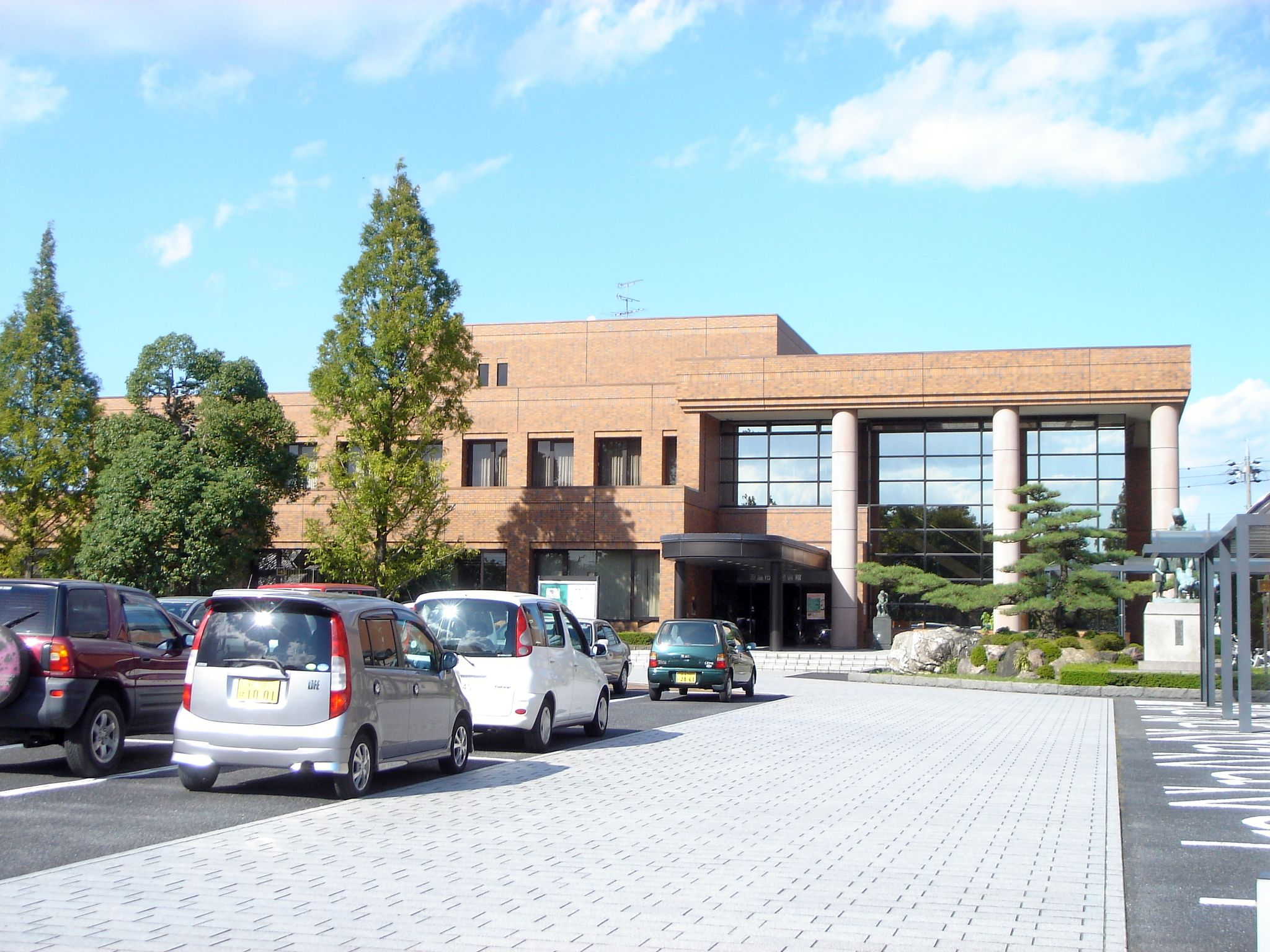 Hashima City Public Library（羽島市立図書館）,Hashima,Gifu,Japan(岐阜県羽島市)で撮影。